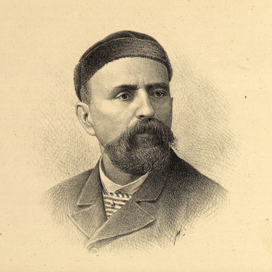 General Pedro A. Galvan, lithography from the book The prominent men of Mexico, 1888.